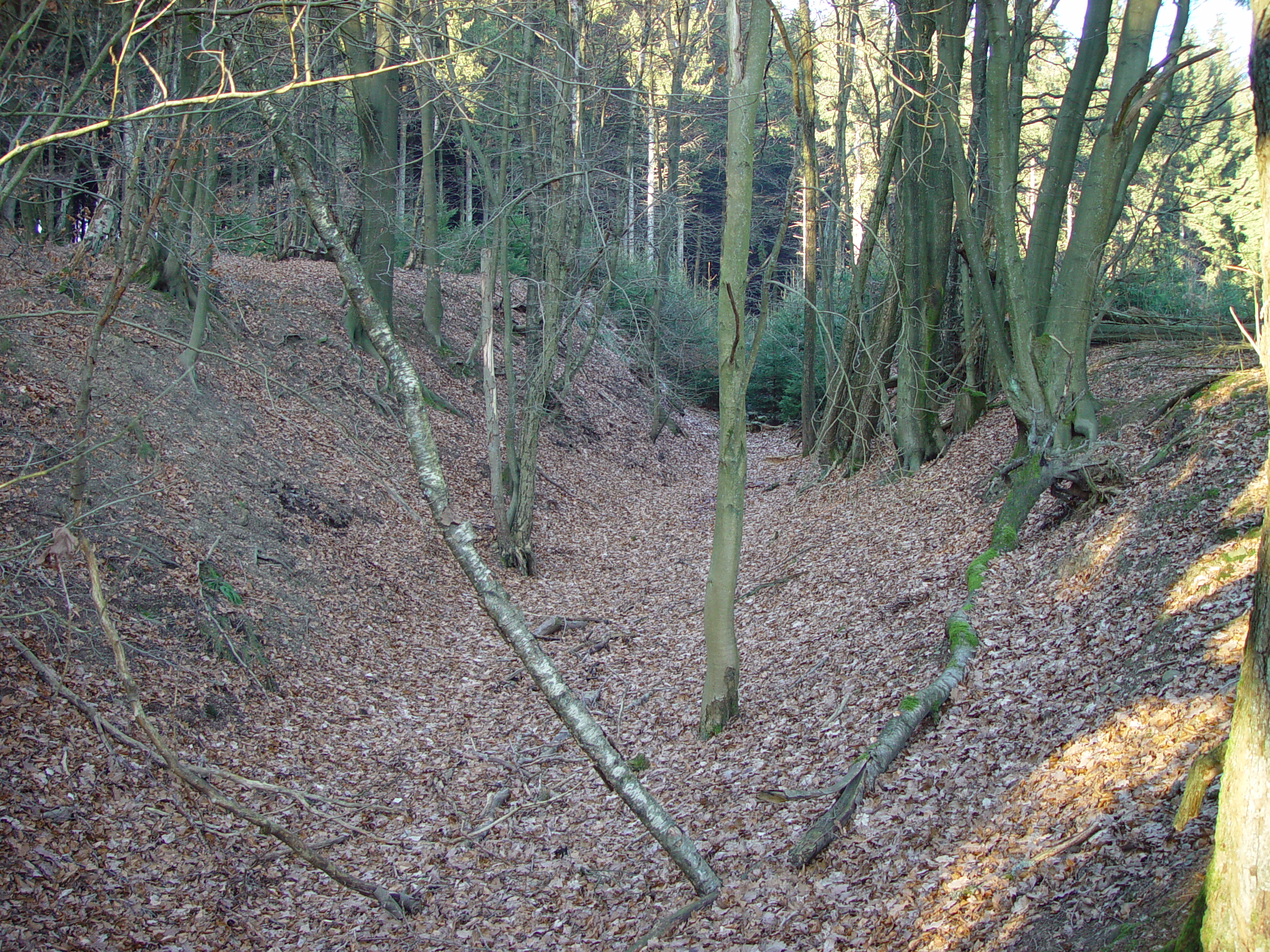 The medivial Hileweg at the Breckerfeld - Halver border (North Rhine-Westphalia, Germany)